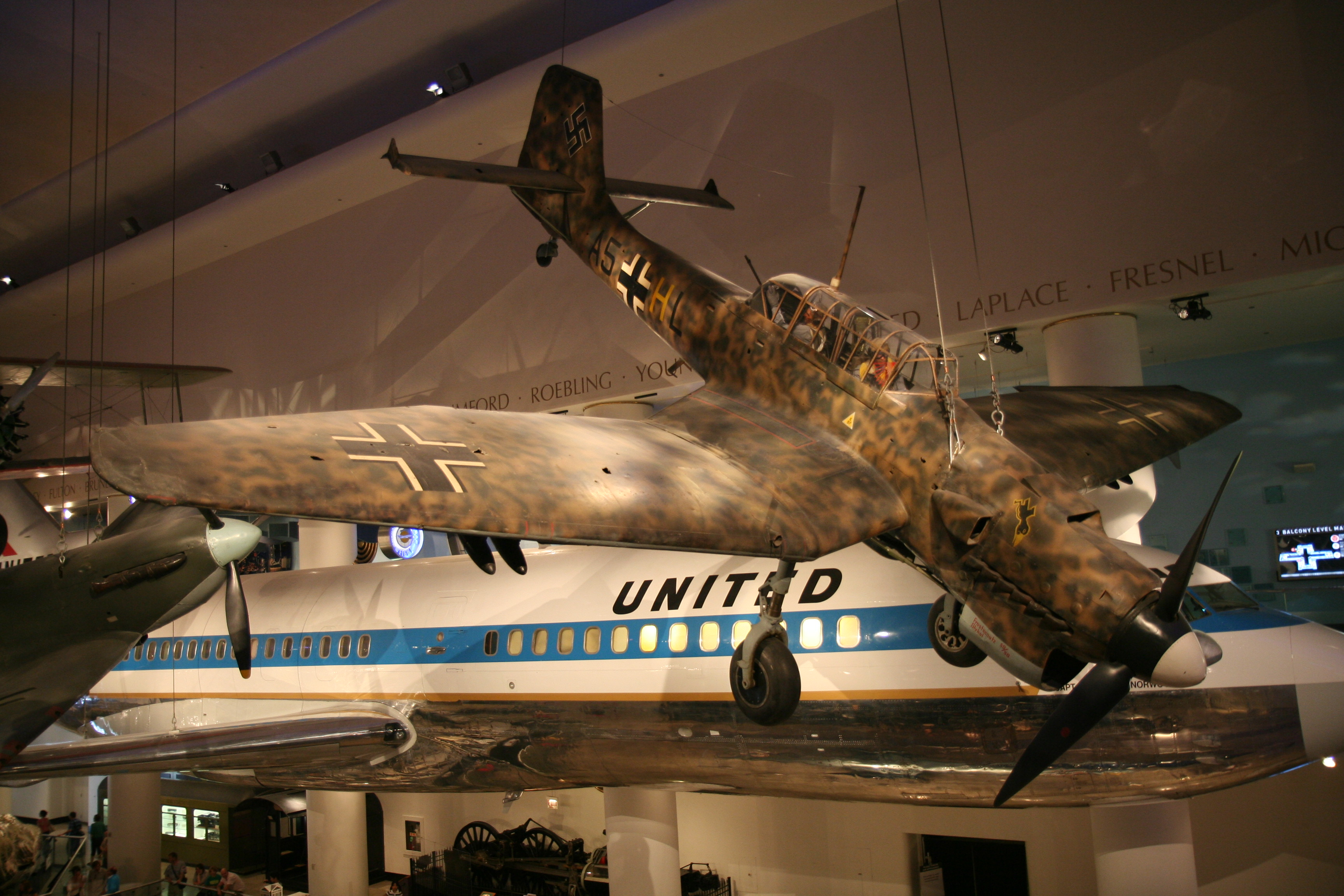 Photograph of Junkers Ju 87 on display at Museum of Science and Industry, Chicago, IL, USA.